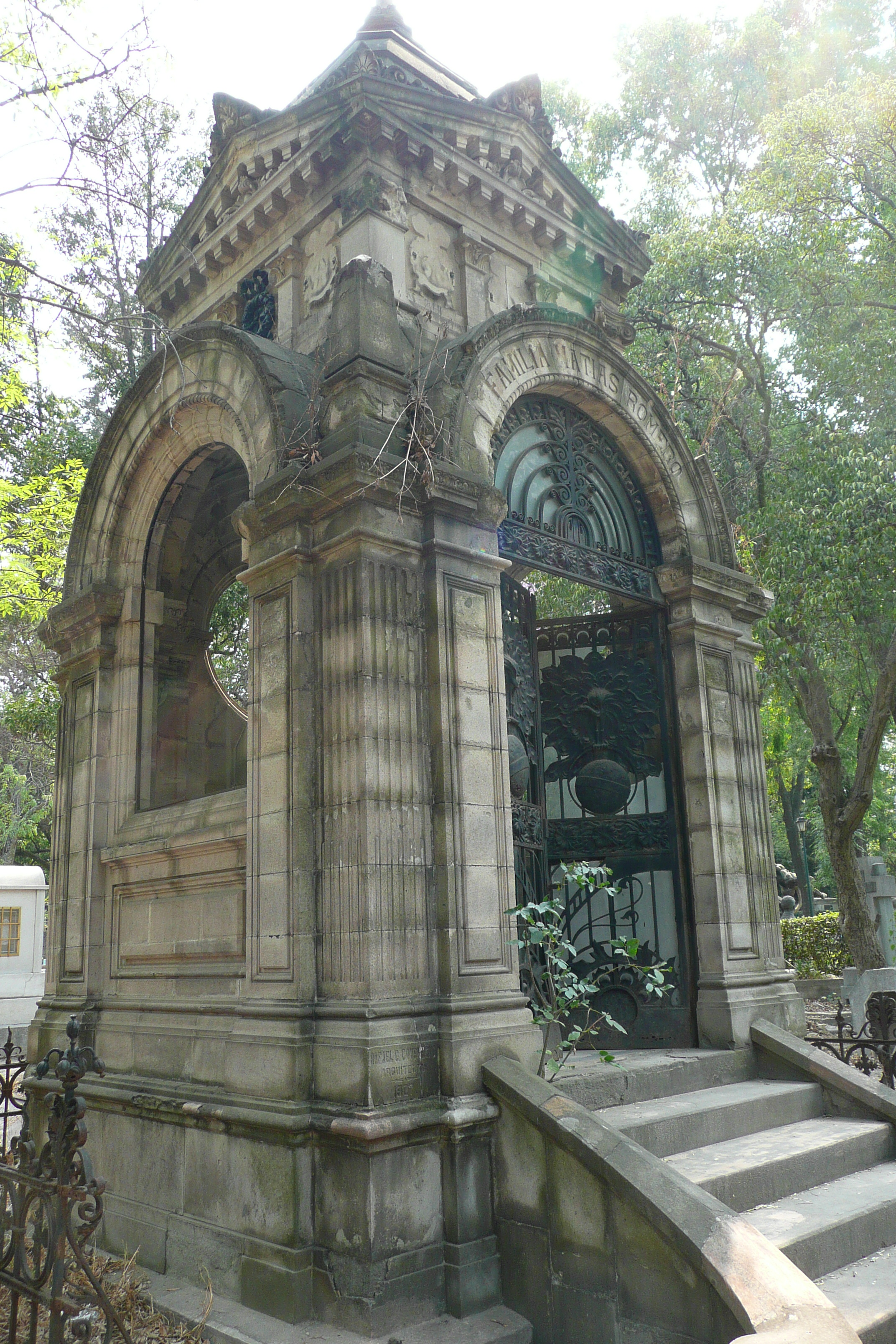 Matias Romero family tomb located in the Civil de Dolores Cemetery in Mexico City.